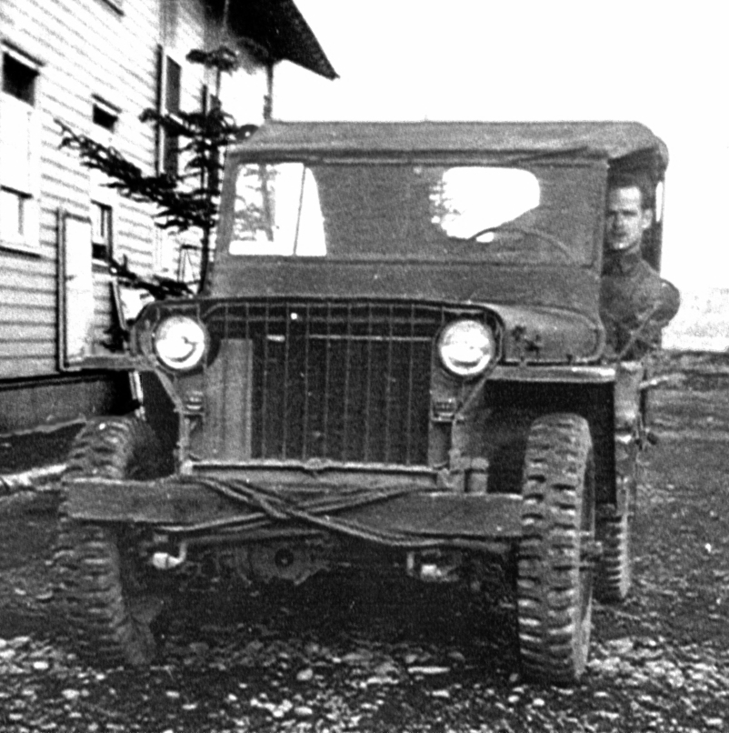 WWII US Army Slat Grill (early) Willys MB Jeep, Stationed in Alaska During WWII.